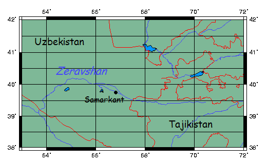 Map of the river Zeravshan, Uzbekistan & Tajikistan map made by User:Nordelch with help of